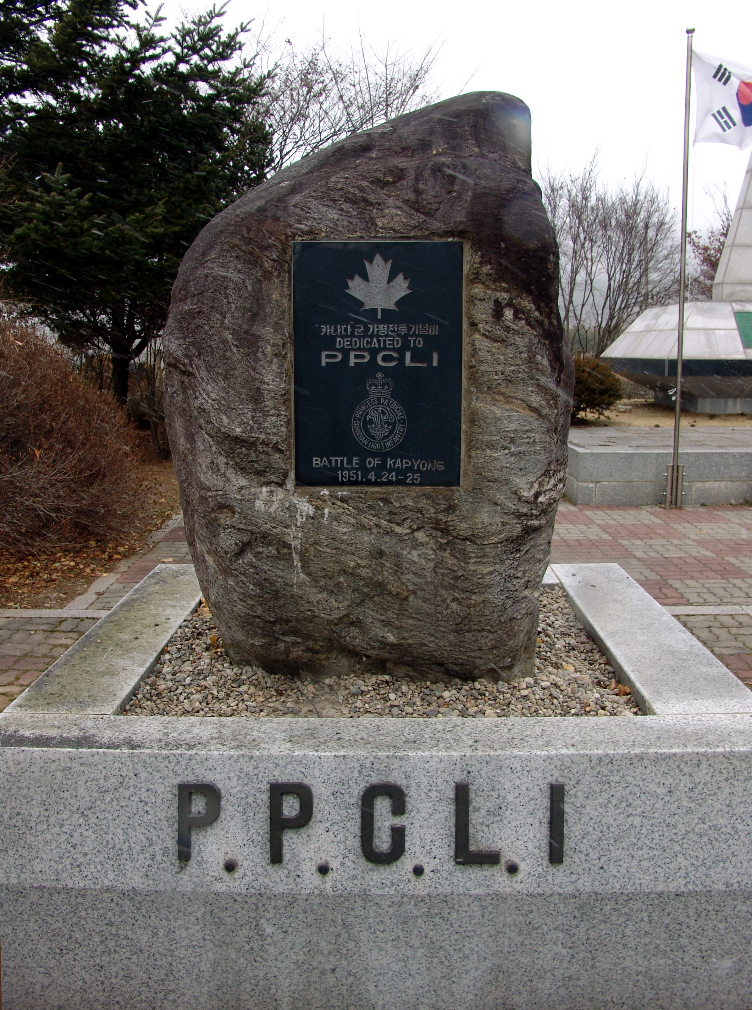 The monument dedicated to the Princess Patricia Canadian Light Infantry at the Gapyeong Canada Monument. I took the picture.